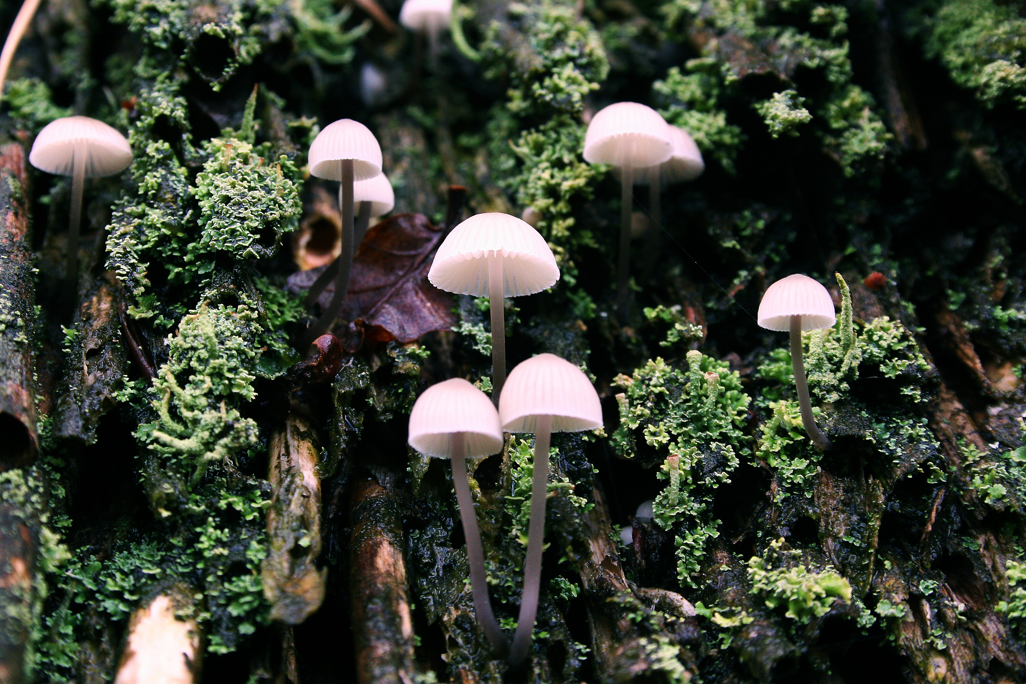 Mycena galopus var. candida (White milking bonnet)